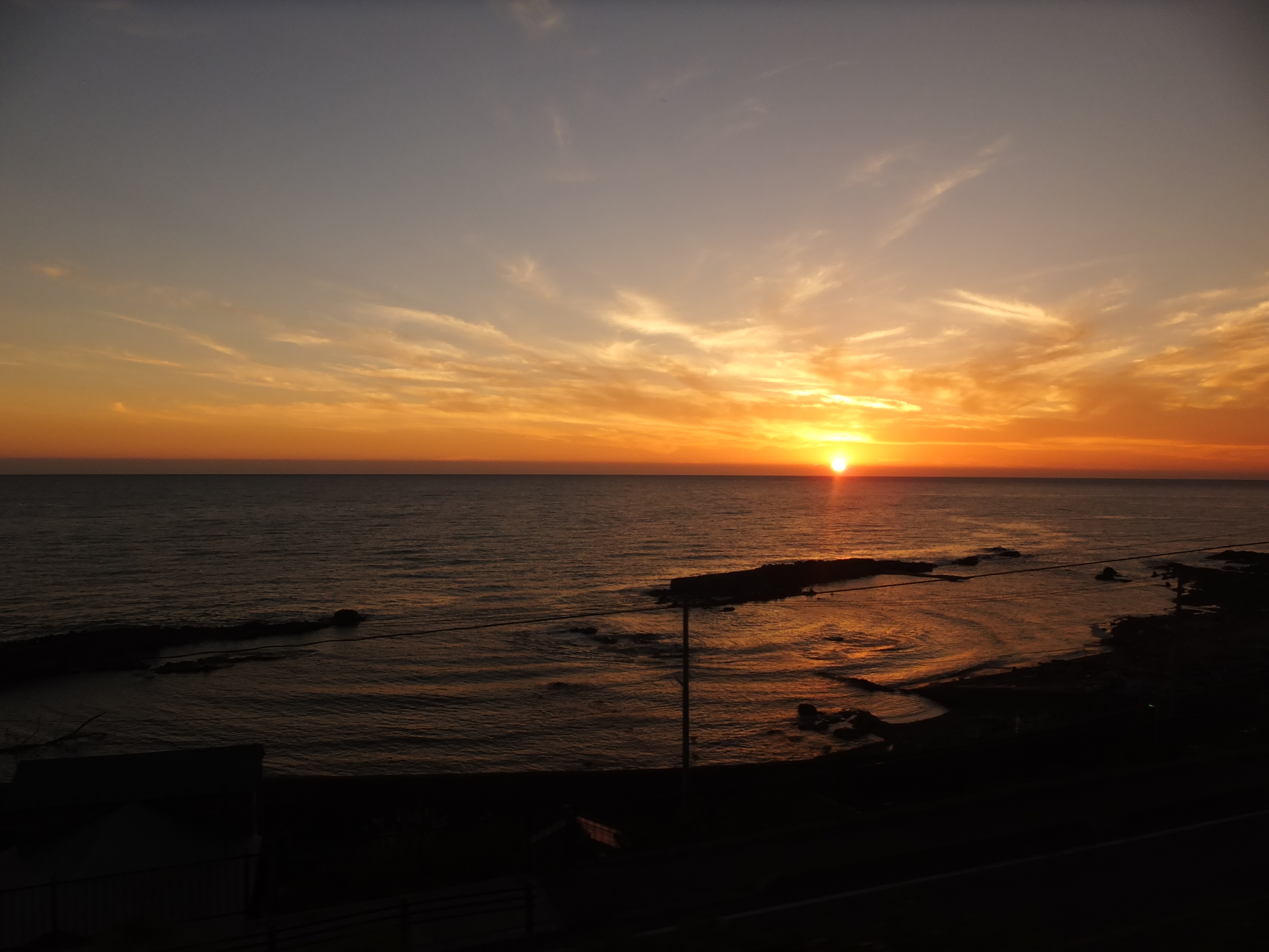 Sunset in Happo, Akita, Japan; from train of the Gonō Line